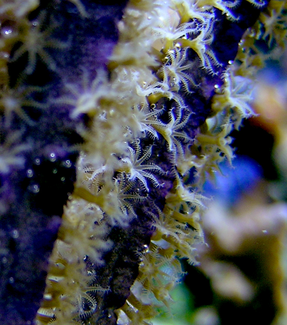 Gorgonian polyps. Photographed in the reef aquarium of aquarist Mike Giangrasso.